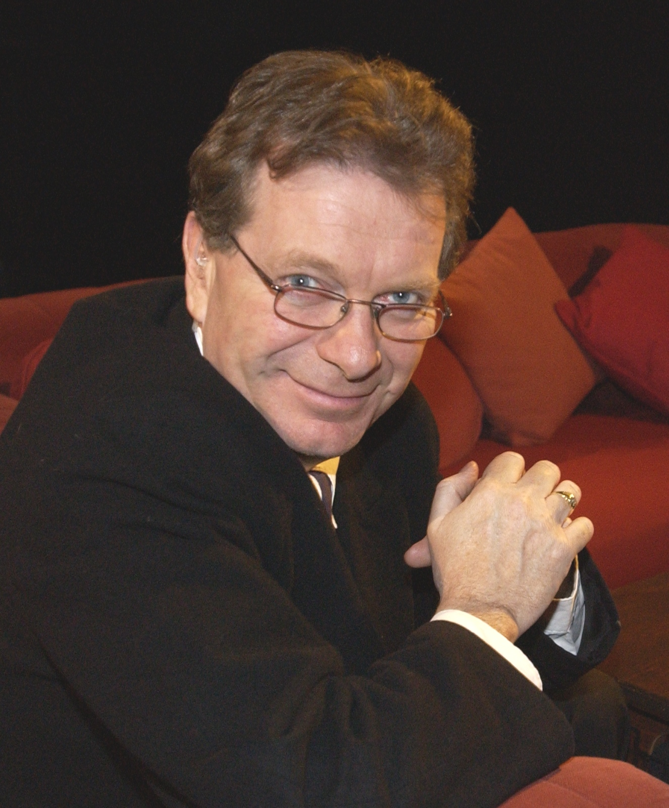 Tony Wilson hosting After Dark on 22 February 2003